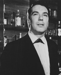 Jorge Sobral- cantor y actor